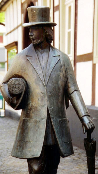 Sculpture Tüötte (merchant), a work of Anne Daubenspeck-Focke (1988), at Haus Telsemeyer in Mettingen, Kreis Steinfurt, North Rhine-Westphalia, Germany.